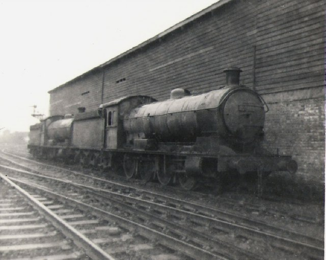 West Hartlepool locomotive shed Two former NER, Q6 locomotives stand outside in the rain.